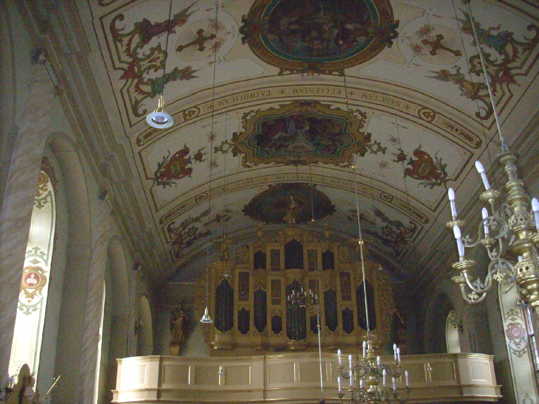 St. Martinus Catholic Church, Borsum